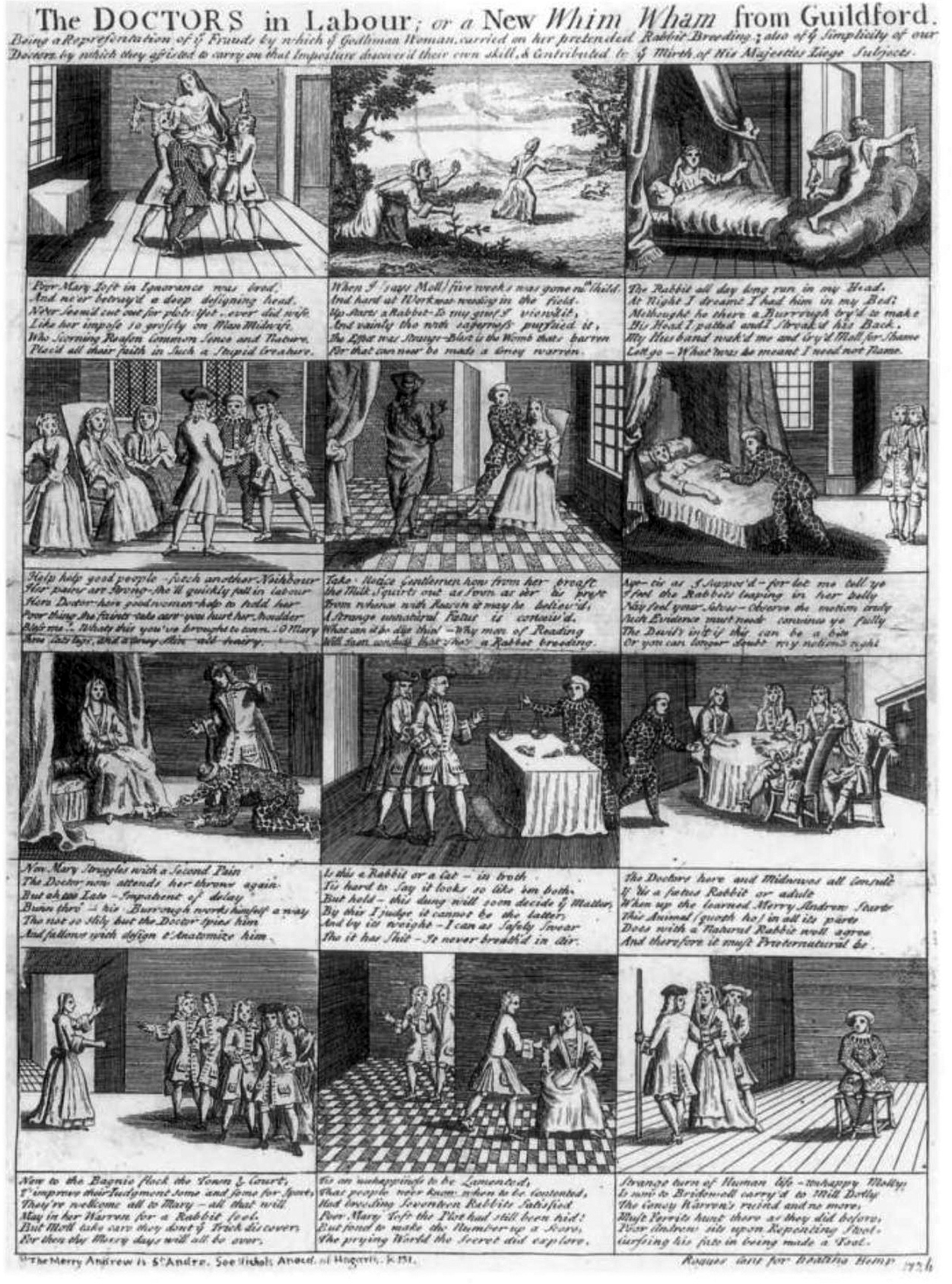 Doctors in Labour, or a new whim-wham from Guildford. Poor Mary Toft in Ignorance was bred, And ne'er betray'd a deep designing head, Ne'er did seem cut out for plots; Yet never did Wife, Like her impose so grossly on Man Midwife, Who scorning Reason common sense and Nature, Plac'd all their faith in such a stupid Creature. When I [Mary Toft] five weeks was gone with Child, And hard at work was weeding in the field, Up starts a rabbit—to my grief I viewed it, And vainly though with eagerness pursued it, The effect was strange—blest is the womb that's barren For that can near be made a coney [rabbit] warren. The rabbit all day long ran in my head, At night I dreamt I had him in my bed; Me thought he there a burrow tried to make His head I patted and stroked his back. My Husband waked me and cried [Mary] for shame Let go—what was meant I need not name.